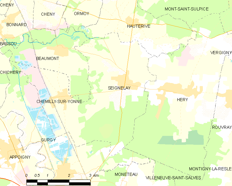 Map of French municipality Seignelay